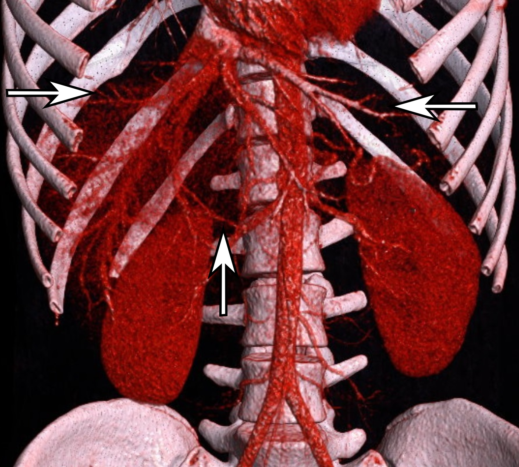 editComputed tomography of the abdomen and pelvis, performed as a contrast CT, here presented as a volume rendering of the hepatic veins. It shows normal anatomy, with no injuries. The subject is a 21 year old male who had blunt trauma to the upper abdomen during motocross.